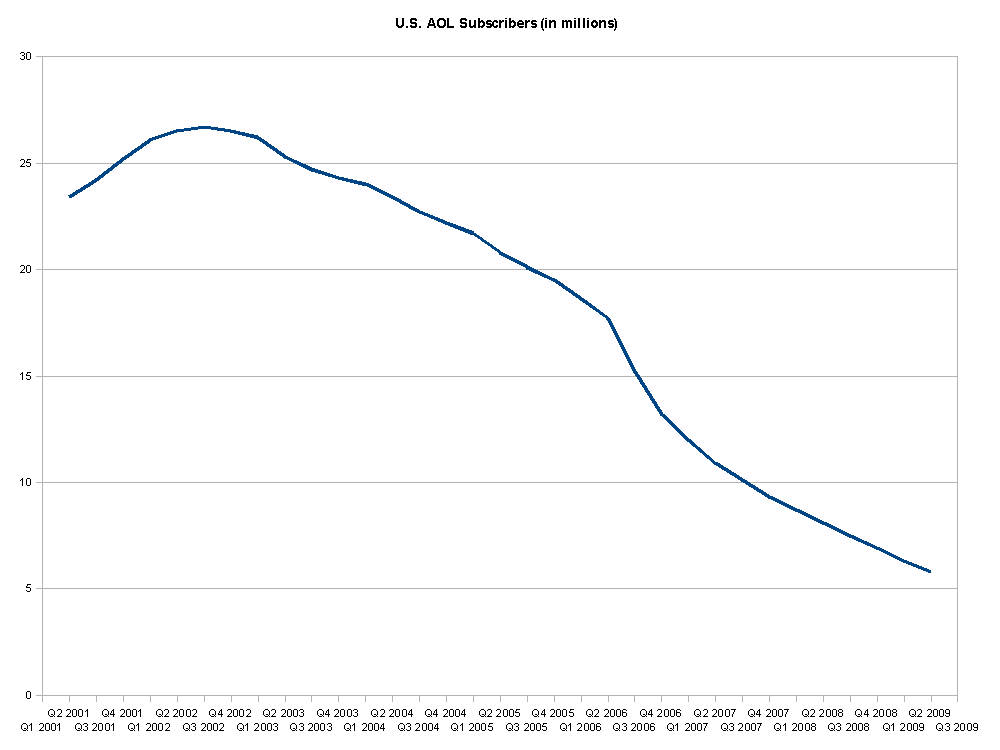 US AOL Subscribers, both Dial-Up and Broadband, as listing in Time Warner's Quarterly and Annual Reports